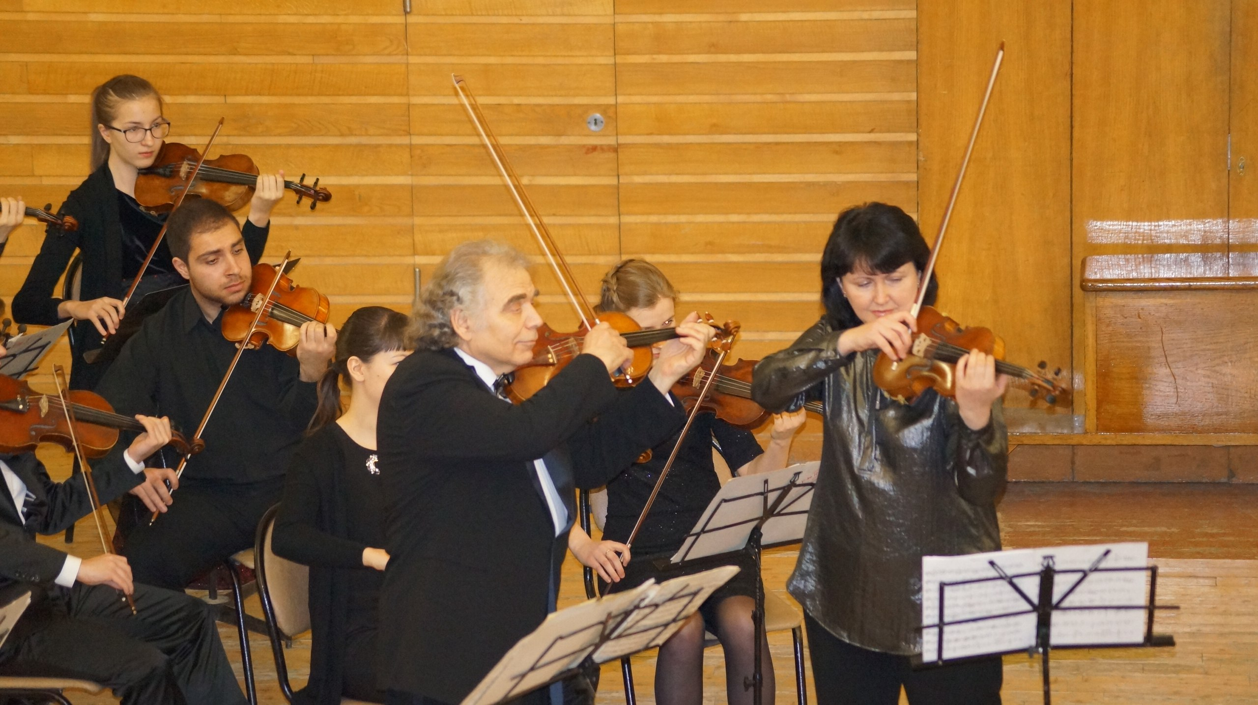 Zakhar Bron and Yelena Baskina (violins) perform in Novosibirsk.